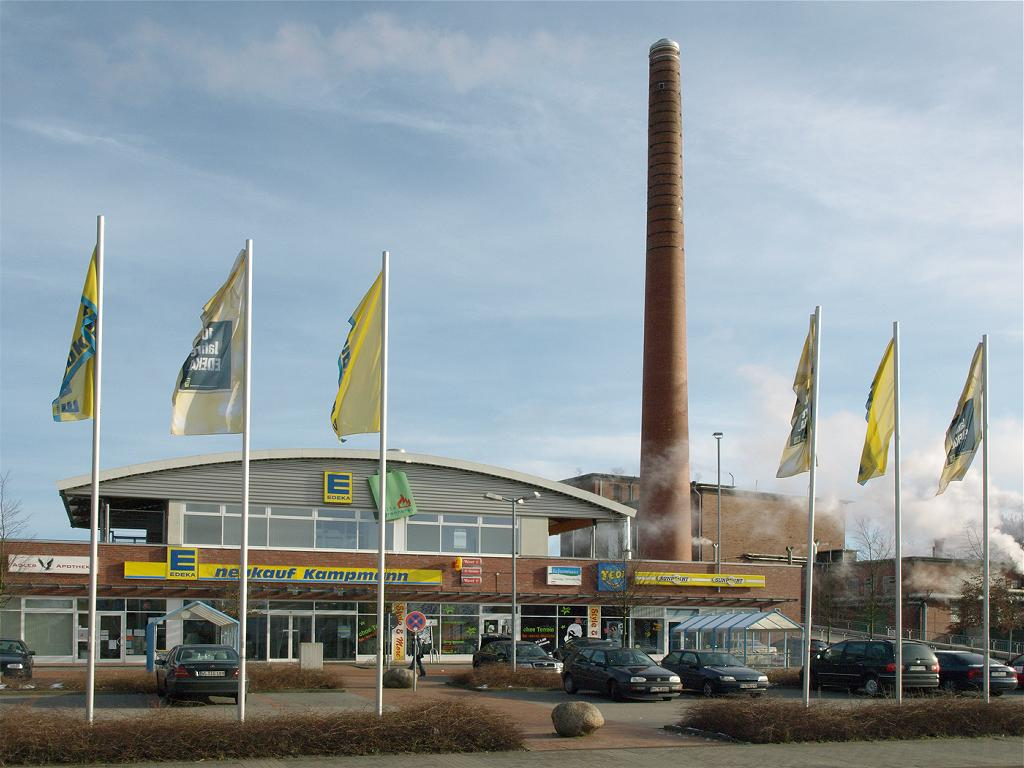 Tornesch (Schleswig-Holstein, Germany) - Esinger Str. 3-7 - Shopping Center and Paper Mill Meldorf - Photo 2008 - The pictured shopping center was built in 2001 near the station on the site of the former distillery. Above the shopping arcade is a park and ride place. - The paper factory Meldorf was created in 1958 as "Tornia paper and board factory". It originated from the Altonaer corrugated cardboard factory and the Meldorfer paper mill. The plant, previously owned by Panther Packaging, was sold to Certina Holding in 2017. Object location53° 41′ 44.95″ N, 9° 42′ 52.95″ E